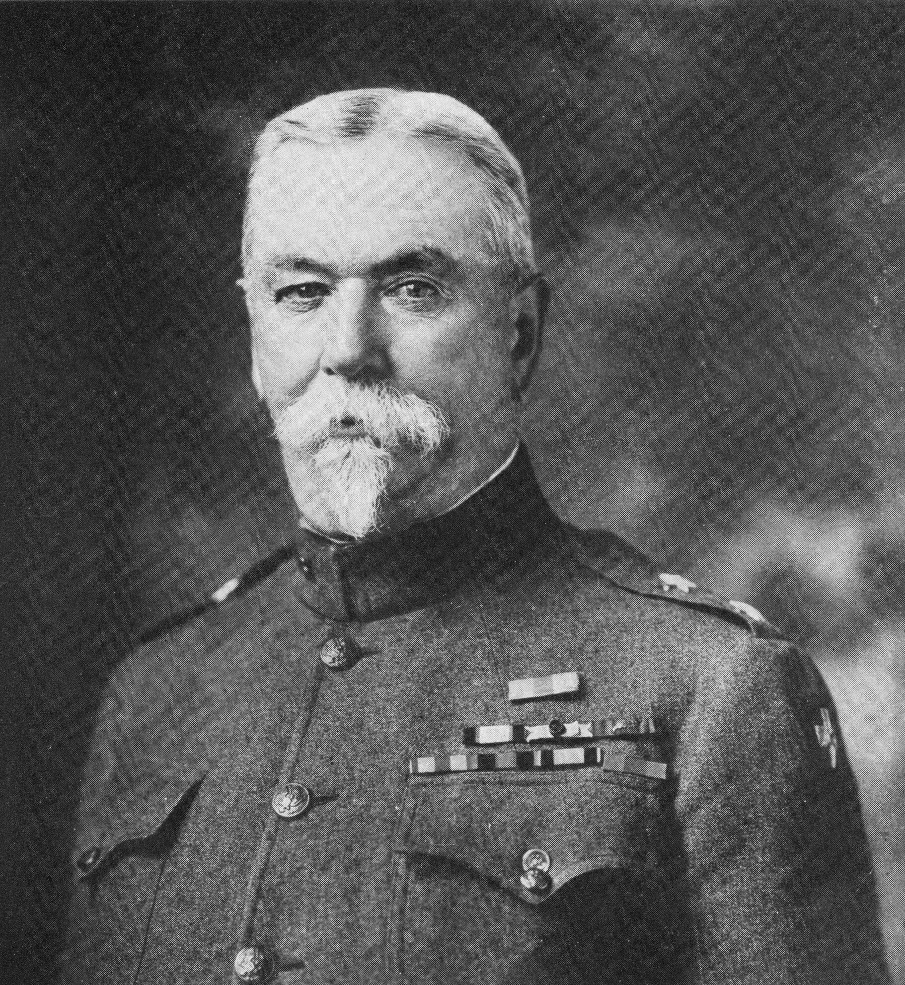 Major General George Bell, Jr.